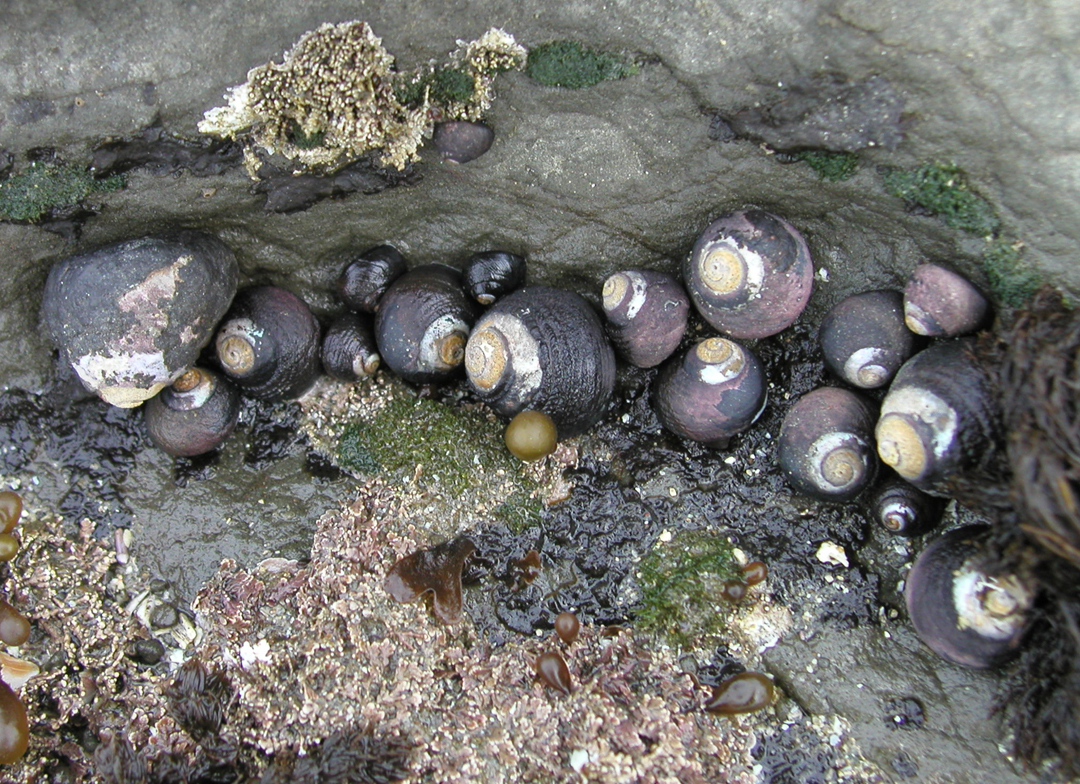 Black turban snails Chlorostoma funebralis (A. Adams, 1855) (synonym: Tegula funebralis).